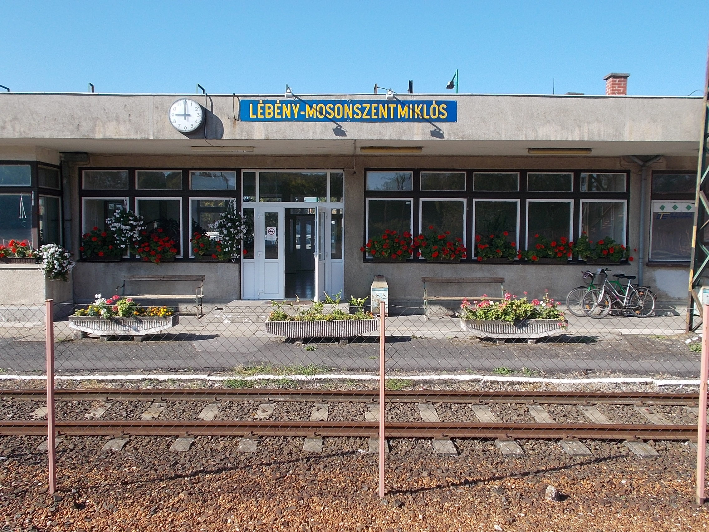 Lébény-Mosonszentmiklós railway station. - Mosonszentmiklós, Győr-Moson-Sopron County, Hungary.